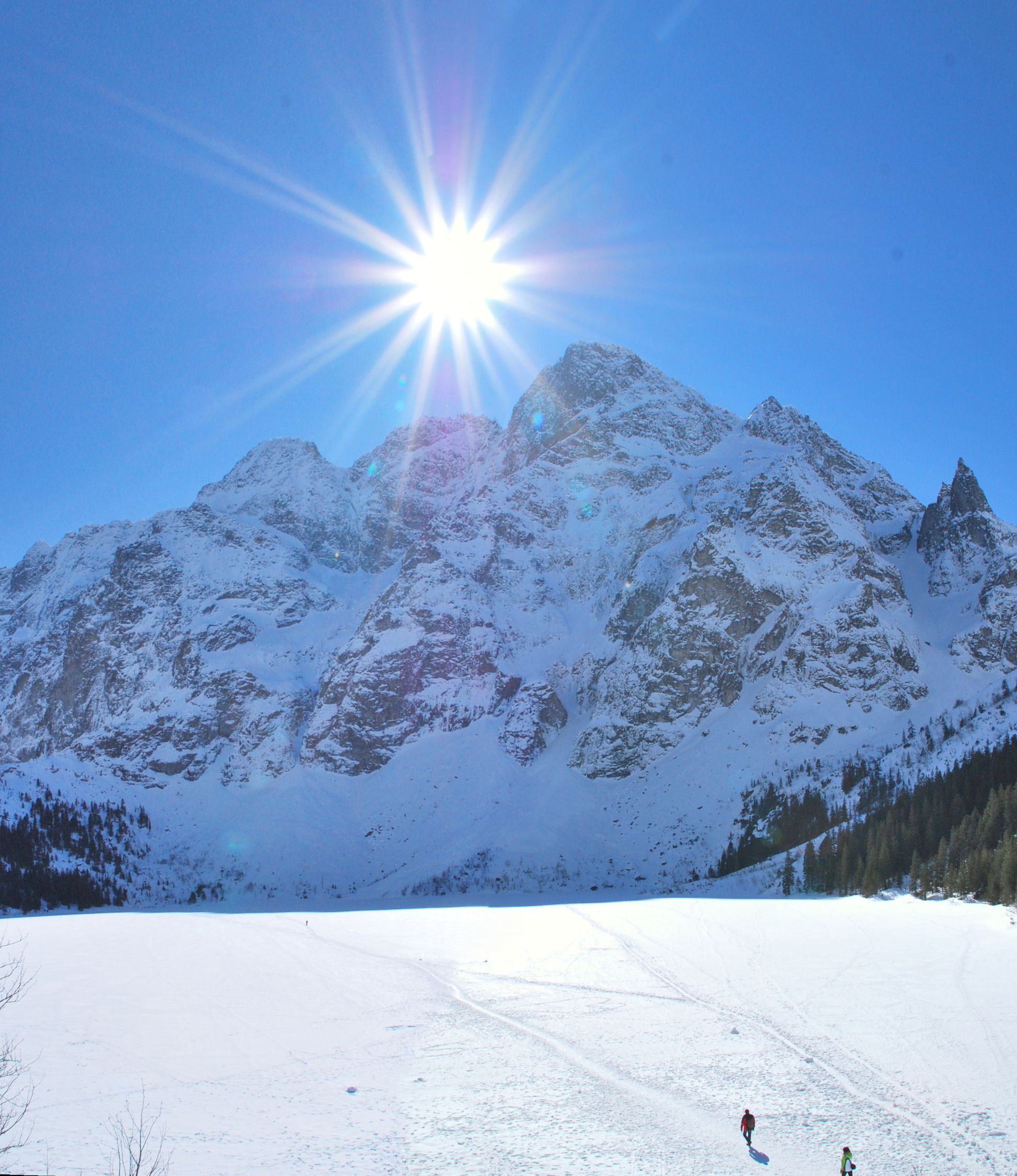 Mięguszowieckie Szczyty wiosną spod schroniska nad Morskim Okiem